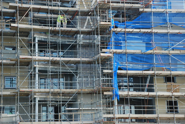 Adeiladwyr Doc Fictoria Builders Two men take a break from work on the next block of flats.